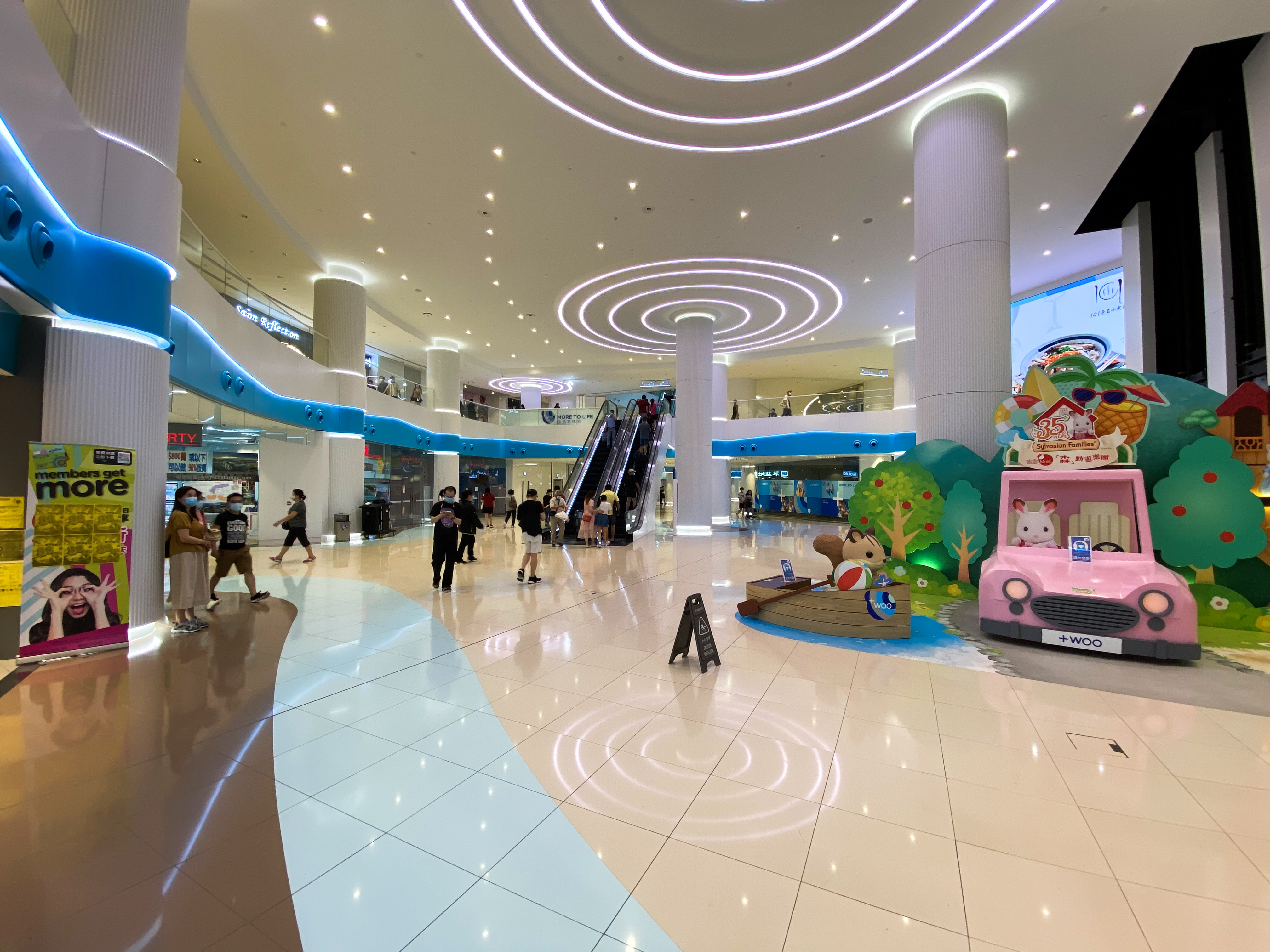 +WOO After renovation in 2019